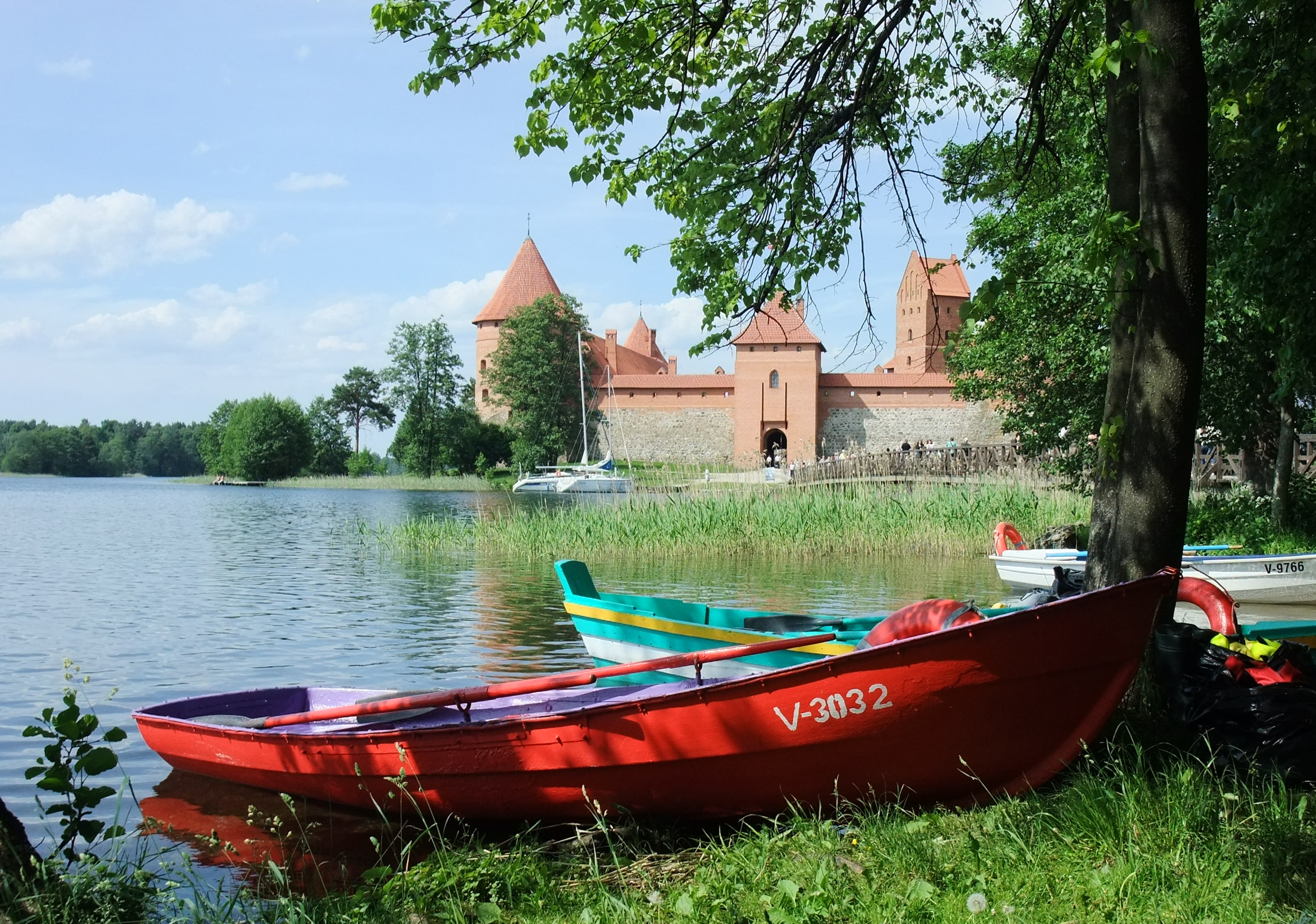 Trakai Island Castle, Lithuania